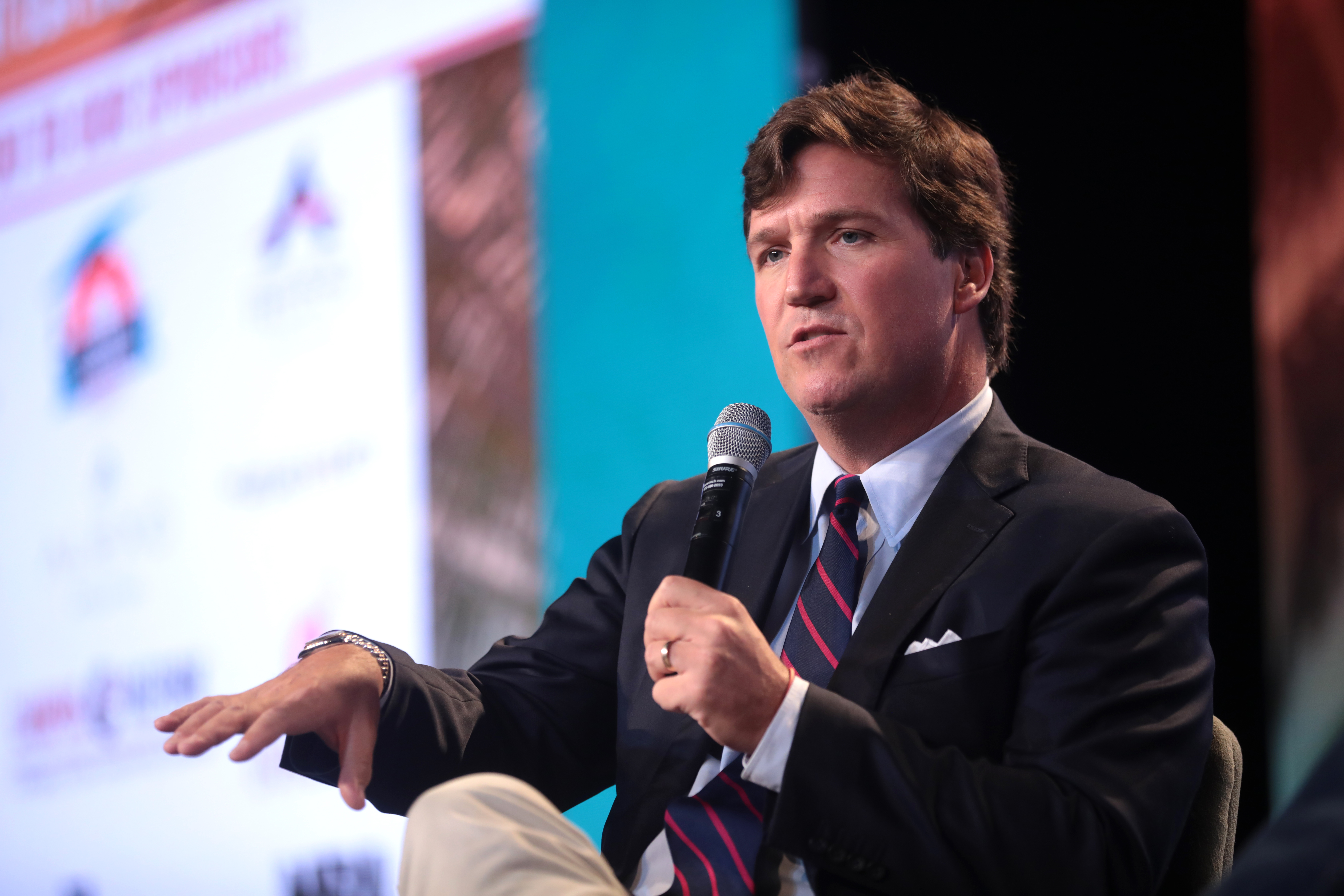 Tucker Carlson speaking with attendees at the 2018 Student Action Summit hosted by Turning Point USA at the Palm Beach County Convention Center in West Palm Beach, Florida.